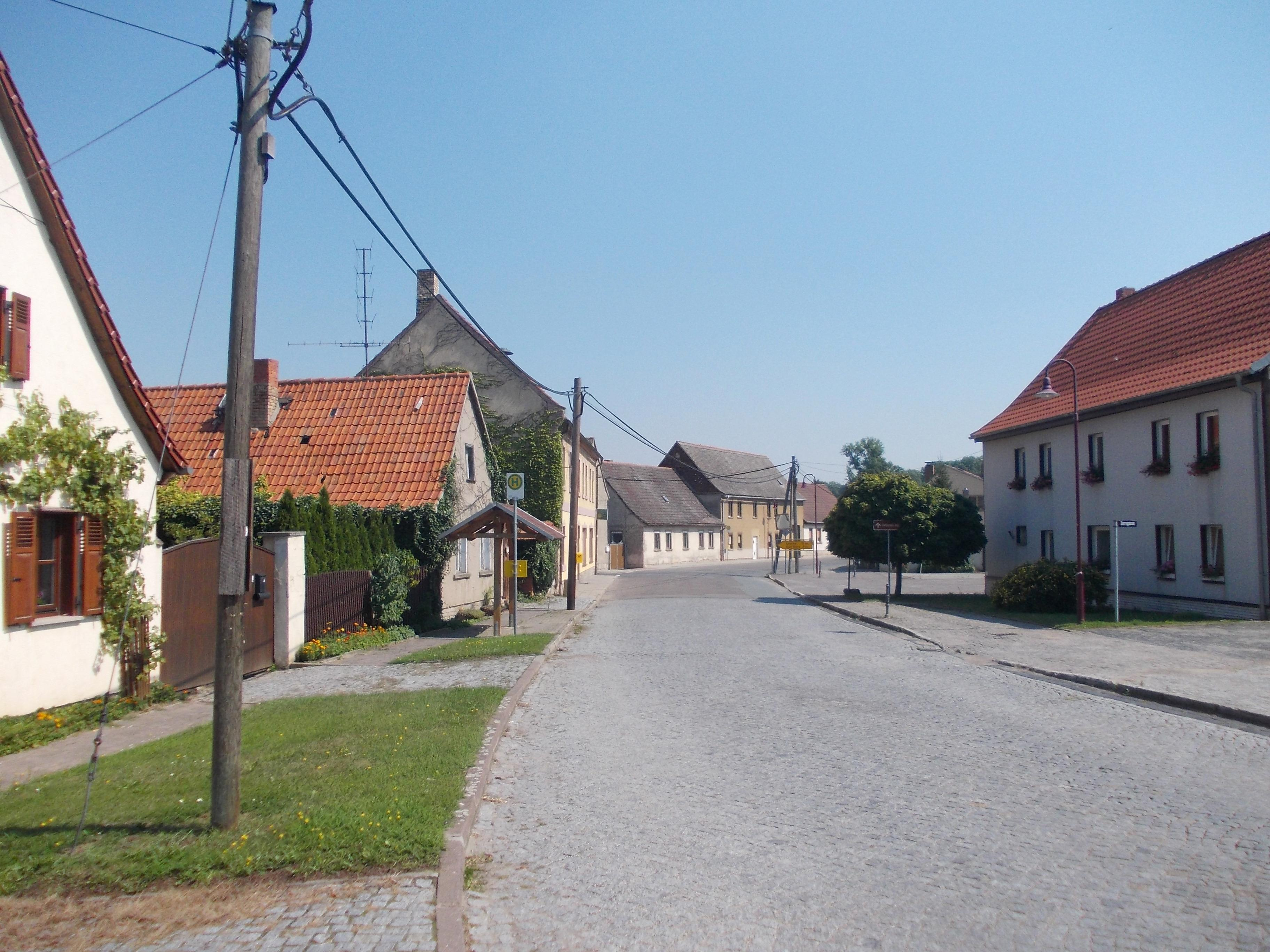 Naumburger Strasse in Klosterhäseler (An der Postsrasse, district: Burgenlandkreis, Saxony-Anhalt)